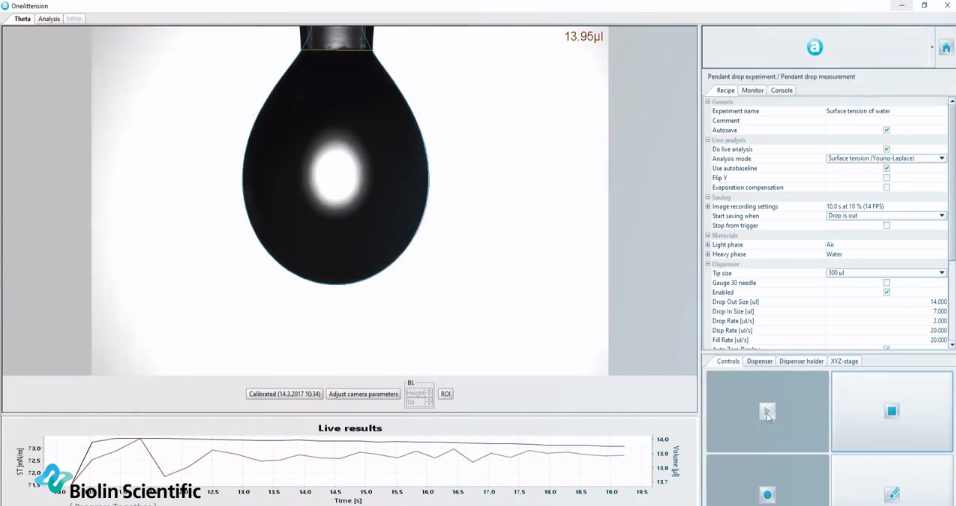 Measuring surface tension with the pendant drop method